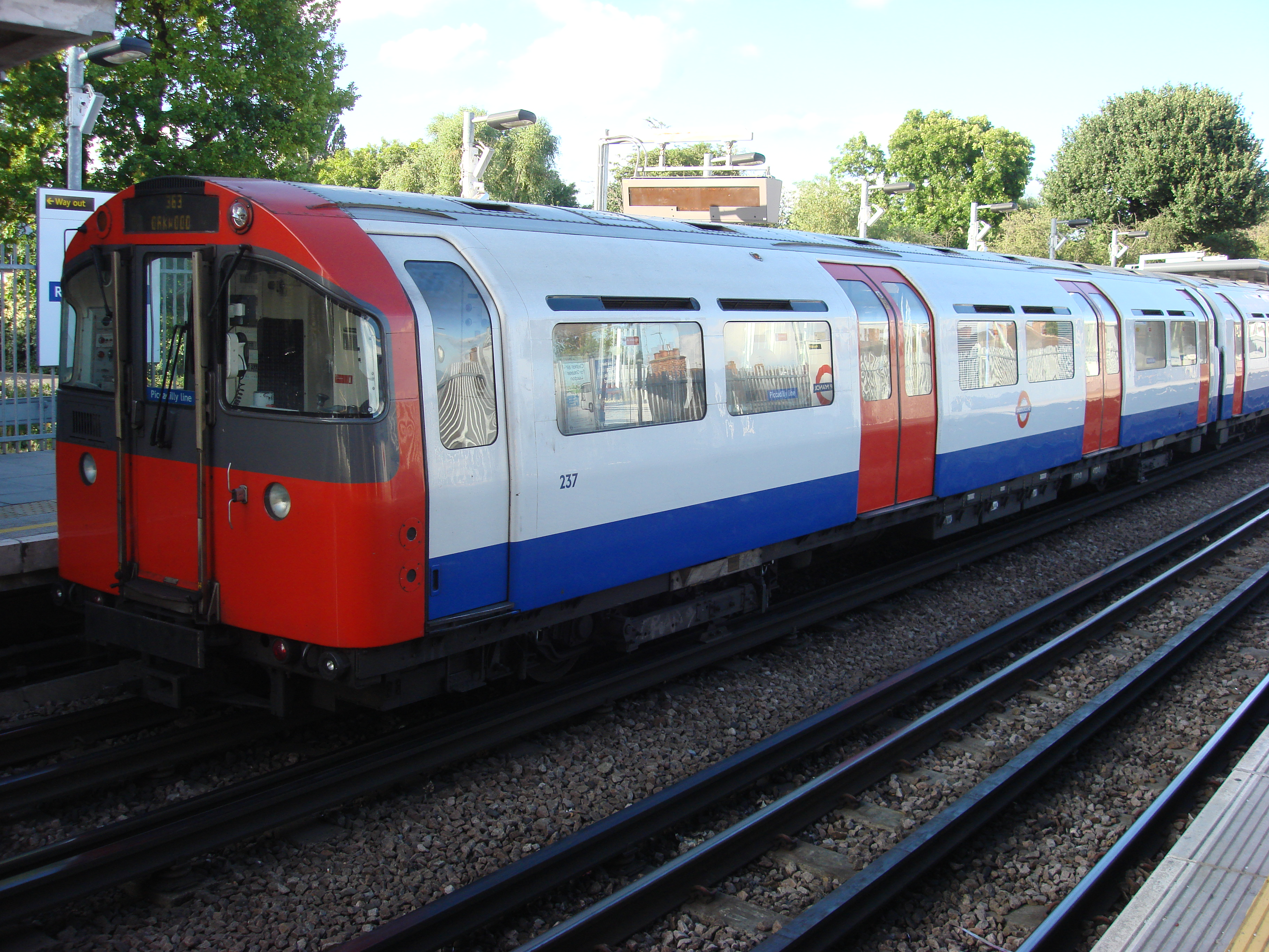 London Underground 1973 Stock at Ruislip Manor tube station